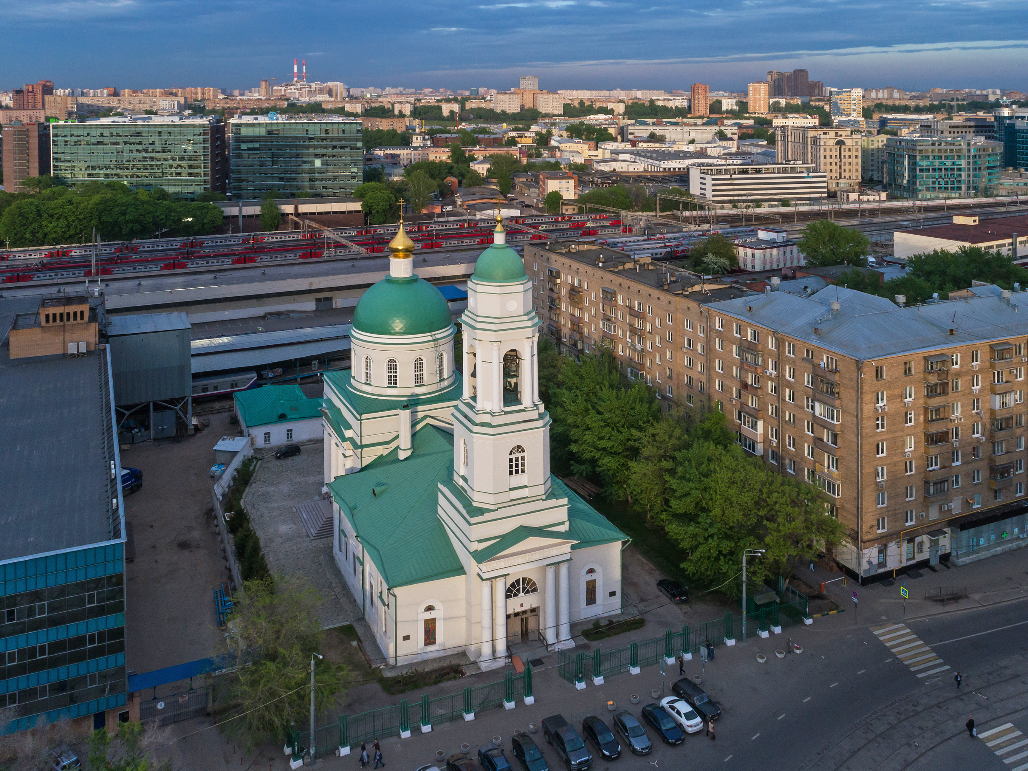 Aerial photo of Church of Florus and Laurus at Zatsepa in Moscow (Russia).